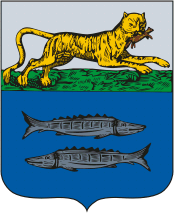 Zhigansk (Yakutia), coat of arms (1790)